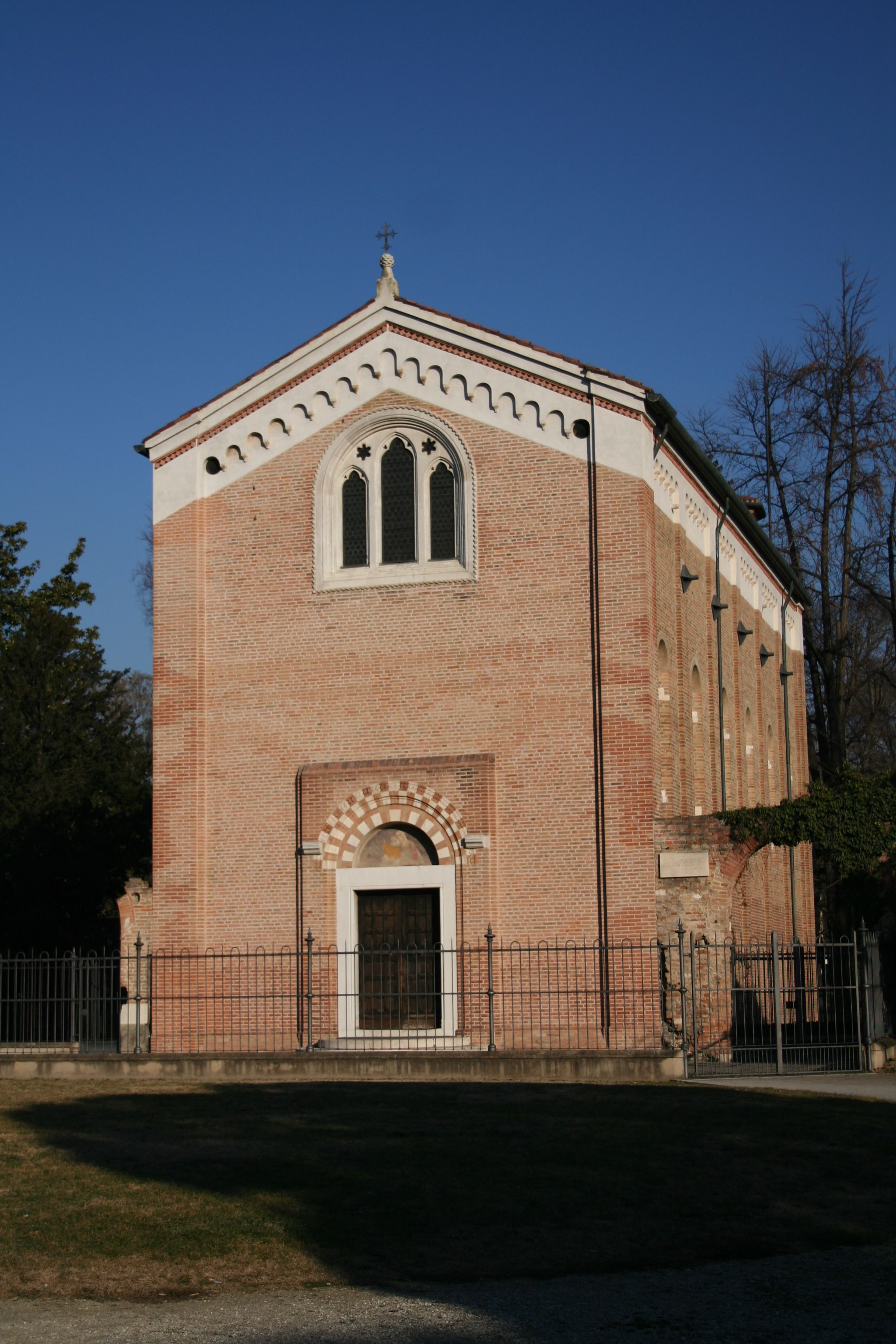 A photograph taken of the Cappella degli Scrovegni in Padua Italy.